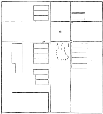 General Position of the Column at the Close of Battle, Scranton, PA, August 1 1877, ∵ represents position of bodies